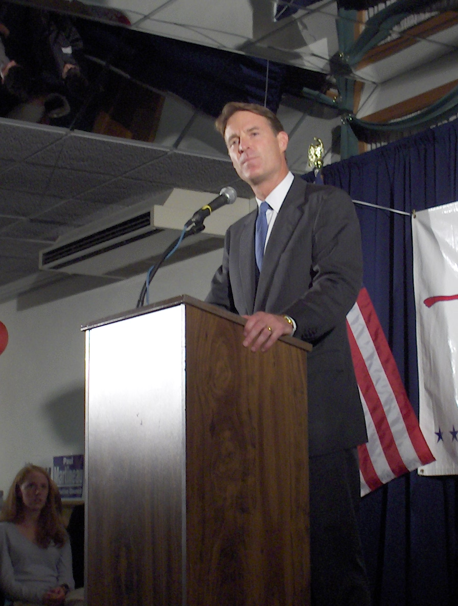 Bayh speaking at a Democratic campaign event